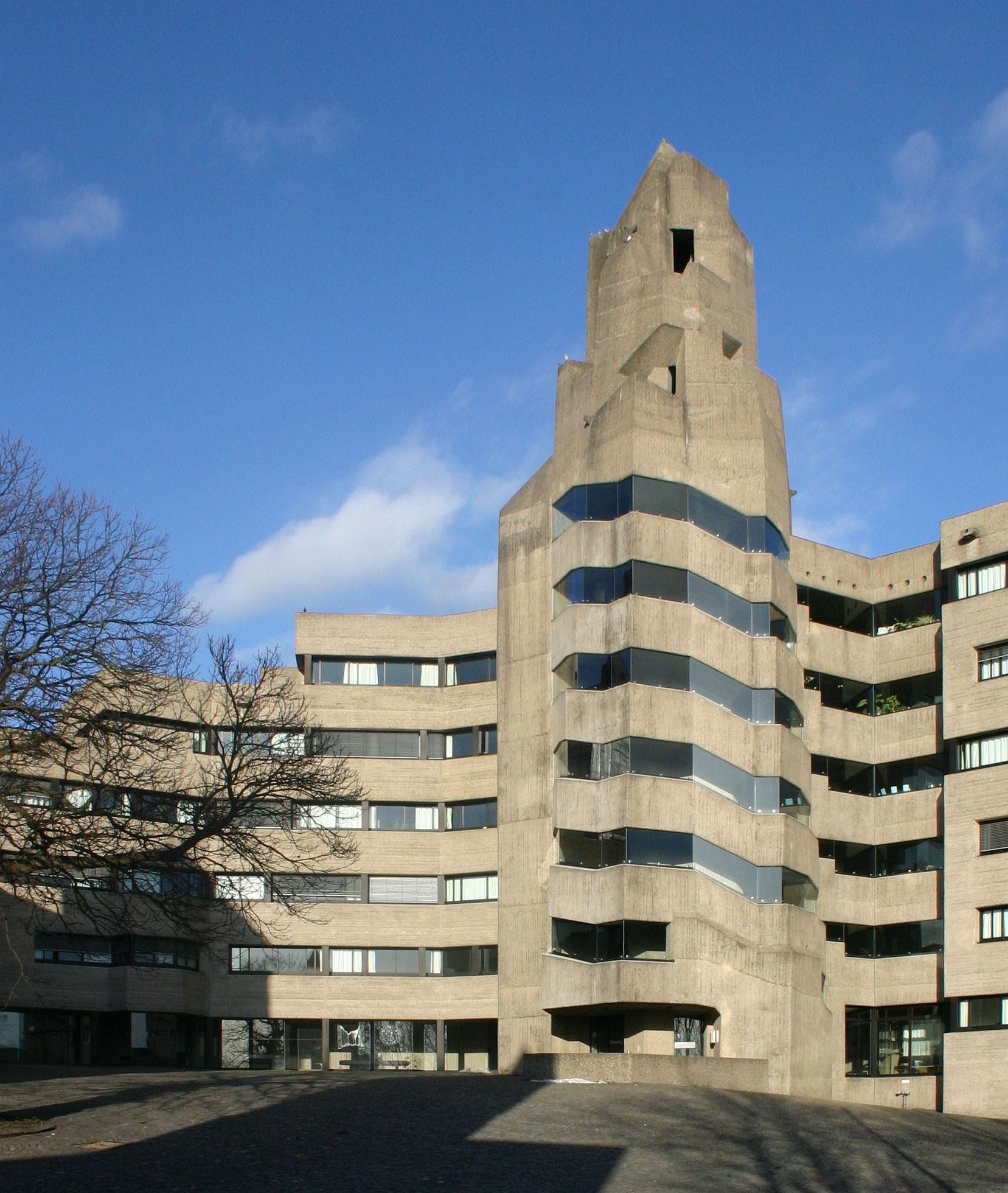 Bensberg City Hall